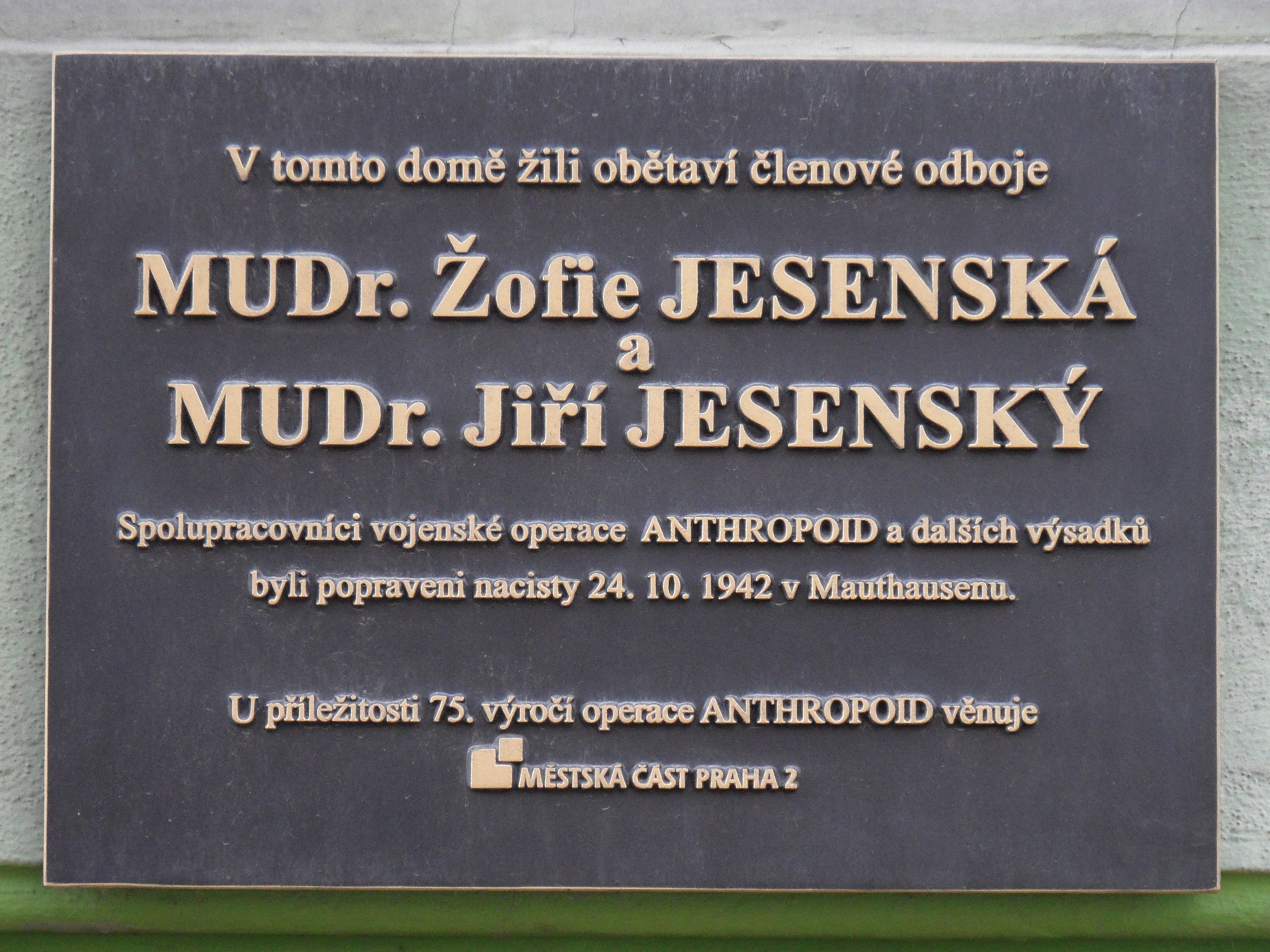 Prague, Resslova street: Memorial Act, 75th Anniversary of Operation Anthropoid. Memorial Plaque in Resslova 7: MUDr. Žofie Jesenská and MUDr. Jiří Jesenský. Prague, the Czech Republic.